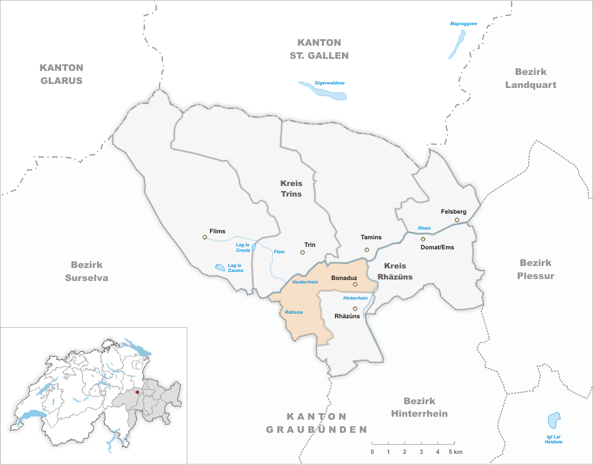 Municipality Bonaduz